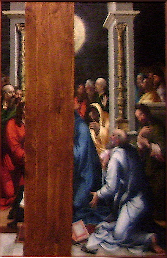 Panel from the altarpiece from the Mosteiro da Trindade